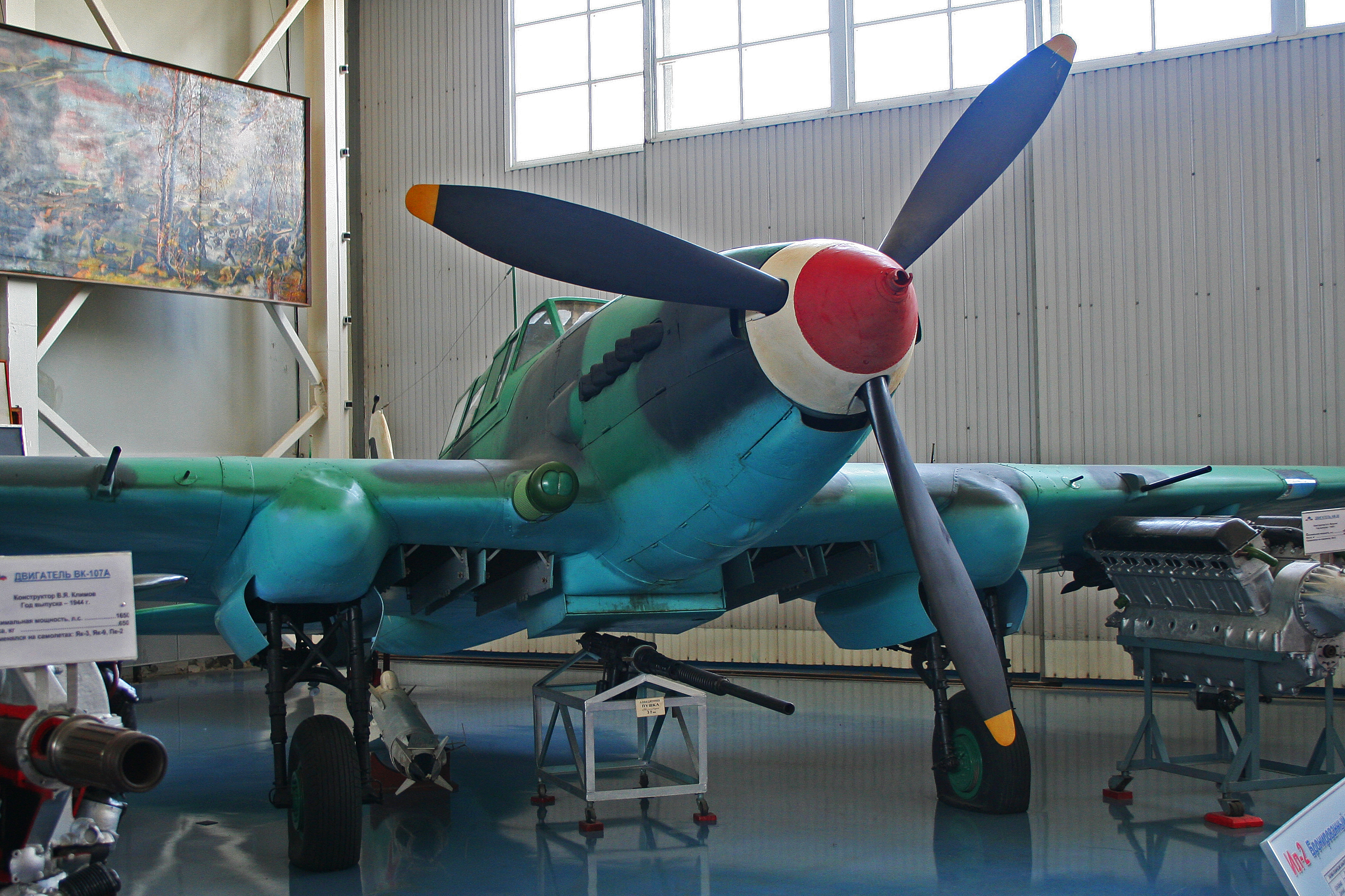 This is a genuine and complete Il-2 Shturmovik. Most surviving examples are rebuilt from wrecks but this appears to be a genuine unrebuilt example. Unfortunately, it is surrounded by engines, cannons etc which makes a clear shot rather difficult! c/n 301060. On display in the new hangar near the museum entrance, which houses many of the museums WW2 types. Russian Air Force Museum. Monino, Russia. 13-8-2012